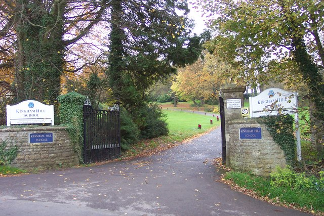 Entrance to Kingham Hill School